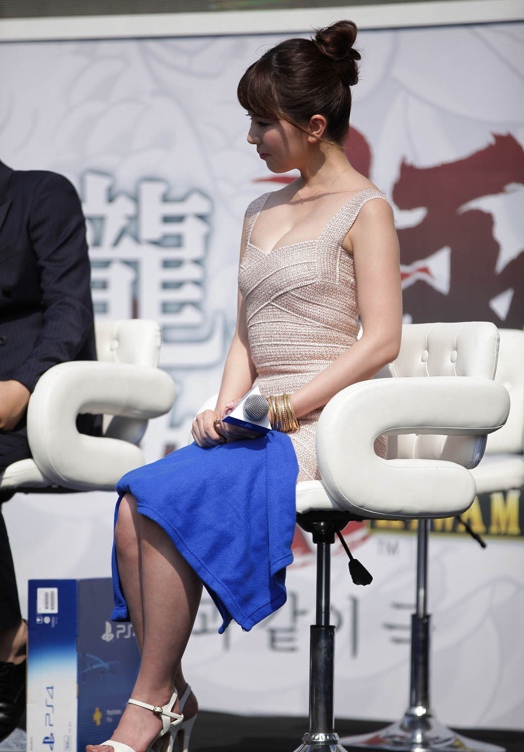 하타노유이(Yui Hatano) 용과같이 극 기념행사